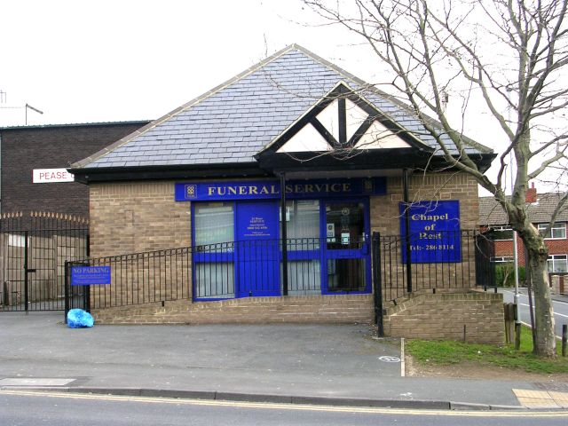 Co-op Funeral Service - Main Street